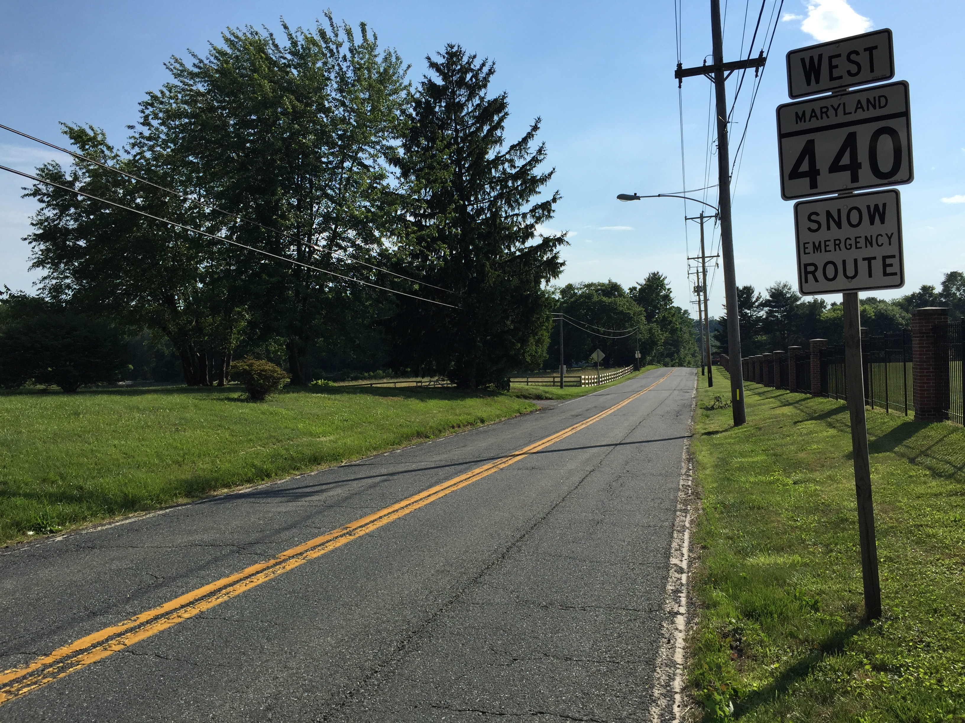 View west along Maryland State Route 440 (Dublin Road) just west of Maryland State Route 136 (Whiteford Road) in Dublin, Harford County, Maryland